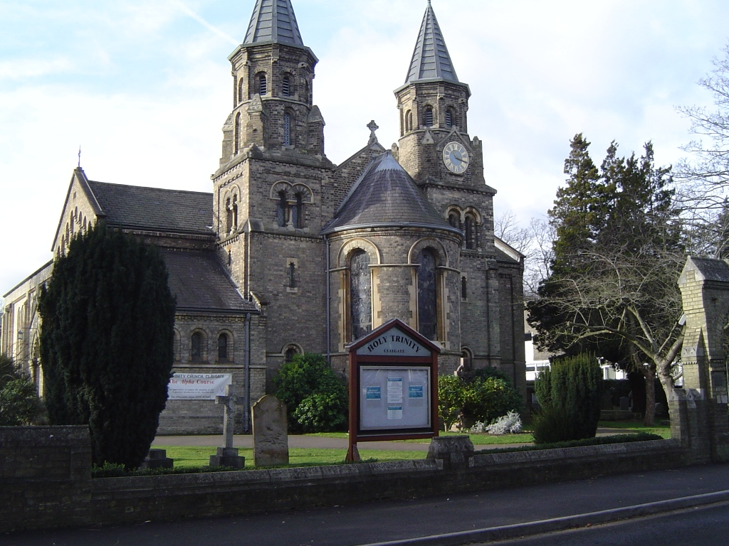 Claygate Holy Trinity parish church